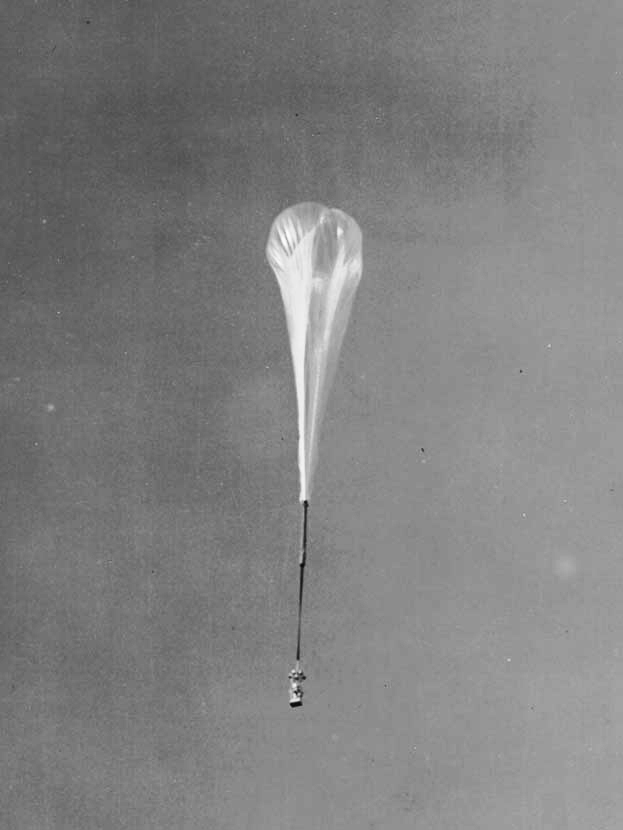 In September 1957, the unmanned Skyhook balloon was launched to take the sharpest photographs of the sun yet taken. Skyhook was part of the Office of Naval Research's Project Stratoscope.